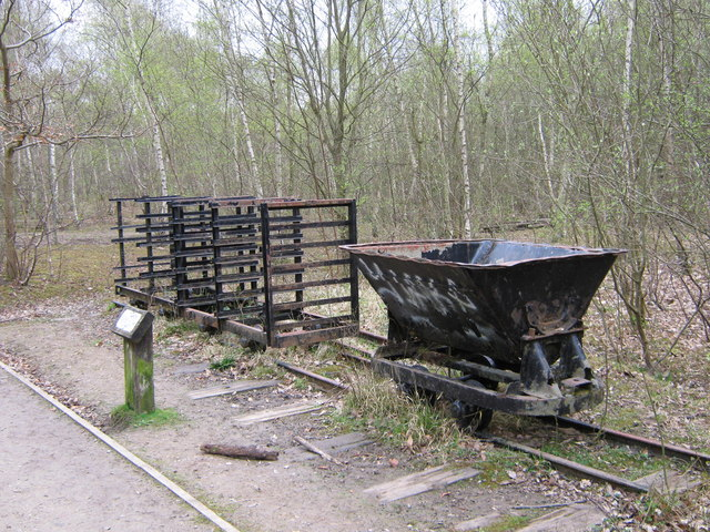 Railway Wagon in Beacon Wood Country Park Seen beside footpath in wood. Has metal sign on post in front which reads '2ft Gauge Hudson Railway Wagons. Commonly used on industrial sites. The 'brick cars' were operated by Ibstock Building Products in Sevenoaks. The side tipping 'skip wagon worked in sand quarries at Leighton Buzzard, Bedfordshire. But is typical of the type used in the Bean clay pit unitl the mid 1960's. Donated in Spring 1993'.